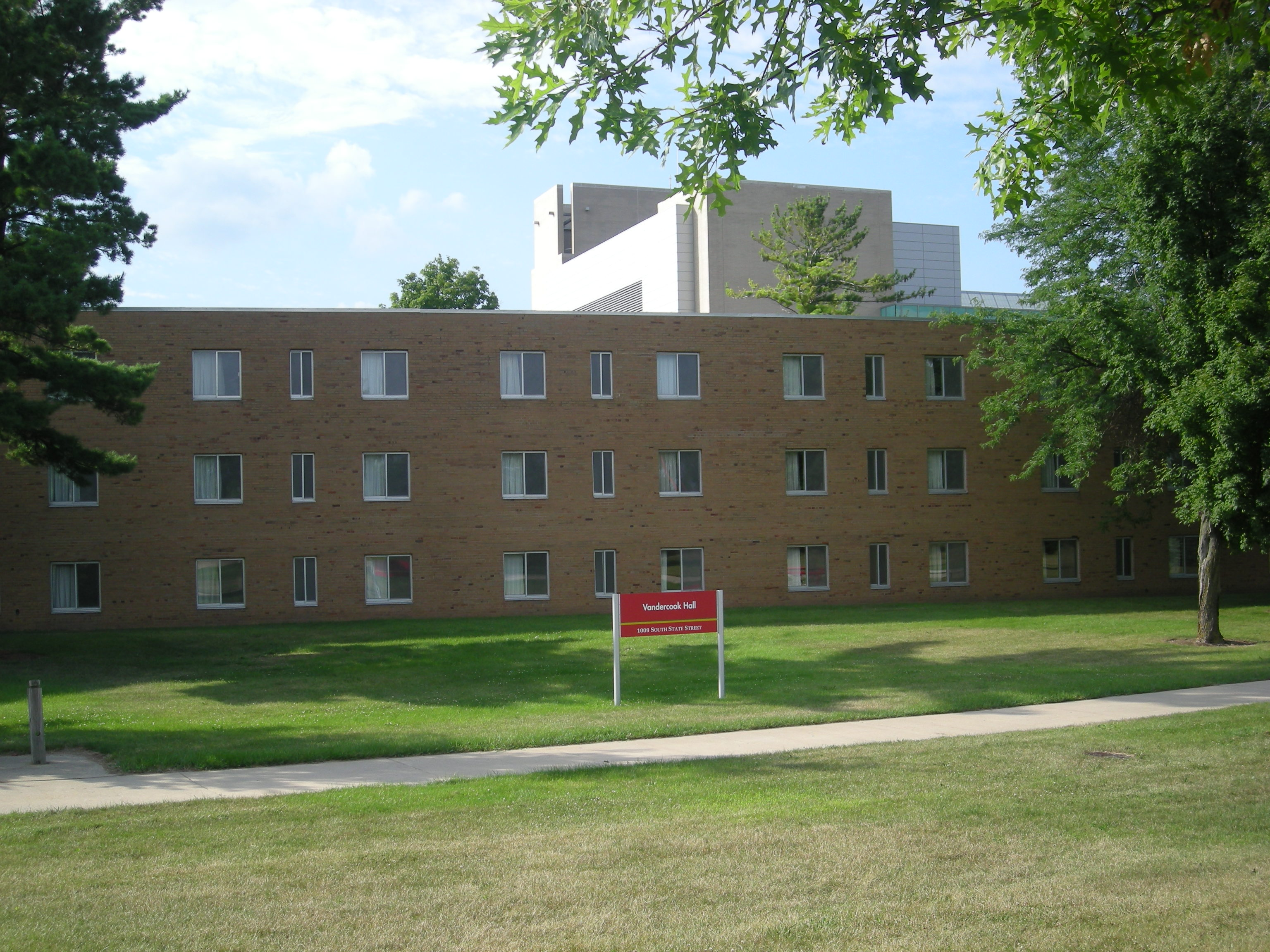 Vandercook Hall on the campus of Ferris State University in Big Rapids, Michigan (United States).